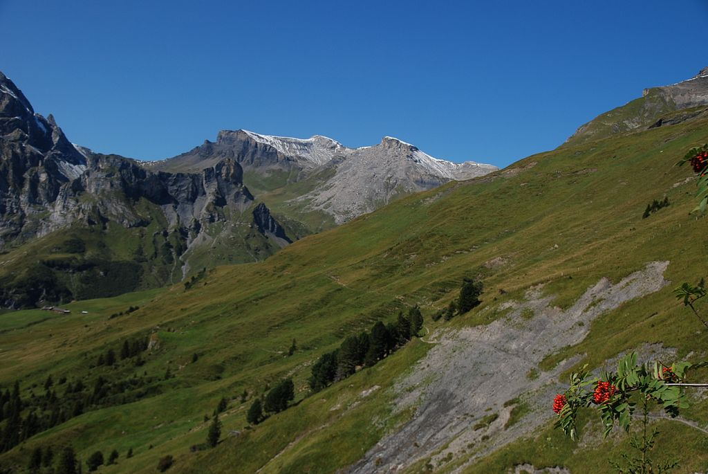 The path to the Sefinenfurgga